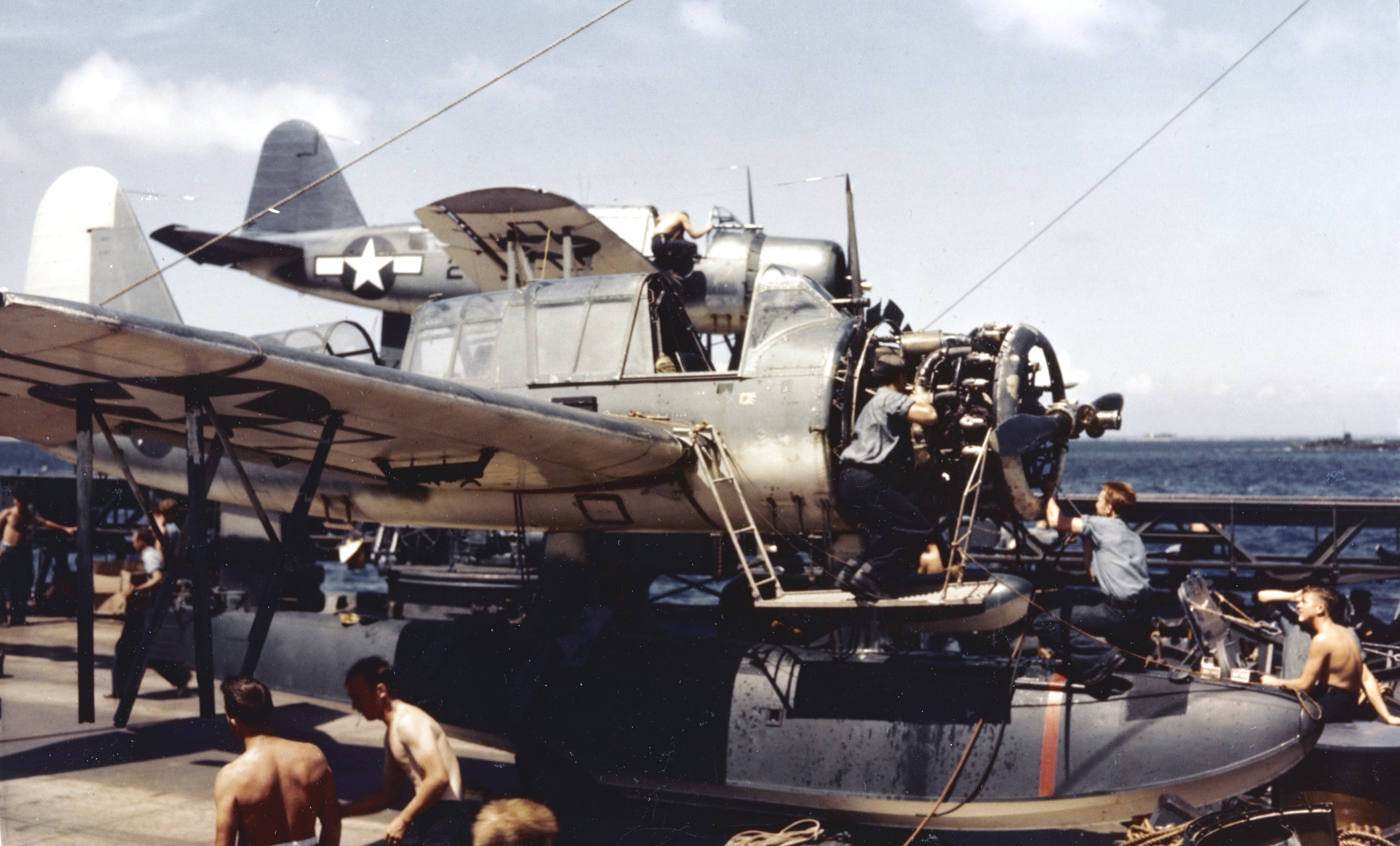 Two Vought OS2U Kingfisher float planes receive engine overhauls on deck of the U.S. Navy battleship USS South Dakota (BB-57), while at a Pacific anchorage, circa 1944-45. Note the Japanese "KILL" flag under the cockpit of the nearer plane.